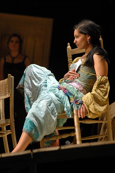 Lídia Danis at the play "One Hundred Years of Solitude" of the Vígszínház